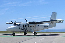 Photograph taken by AL Hiron: Skybus De Havilland Twin Otter at St. Mary's Airport, Isles of Scilly, July 2005.